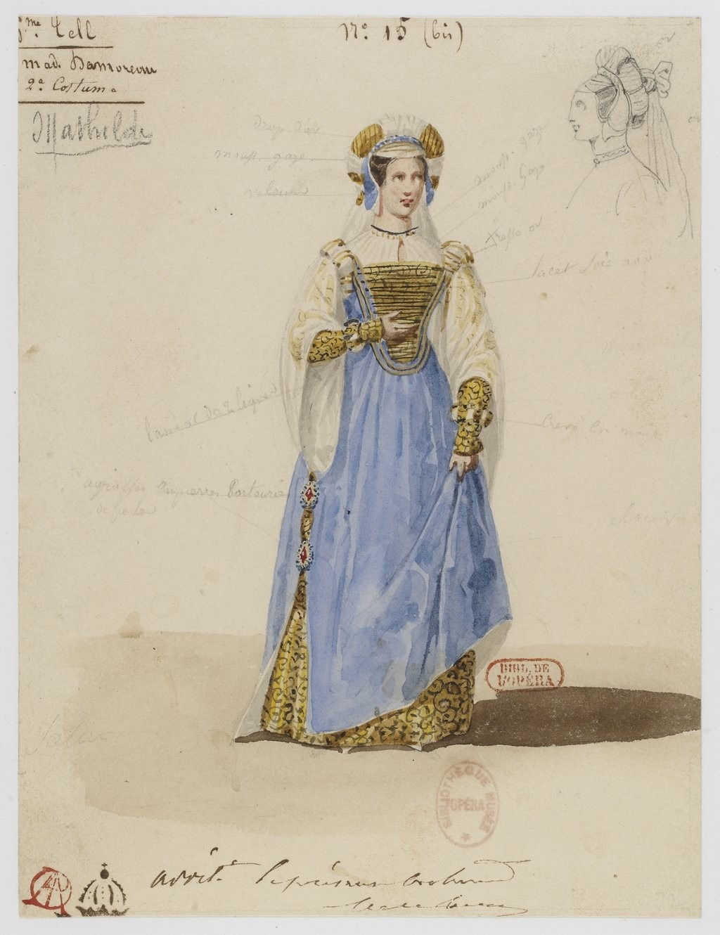 Hipollyte Lecomte - Guillaume Tell - No. 15b Mathilde (Mme Damoreau, 2e costume)